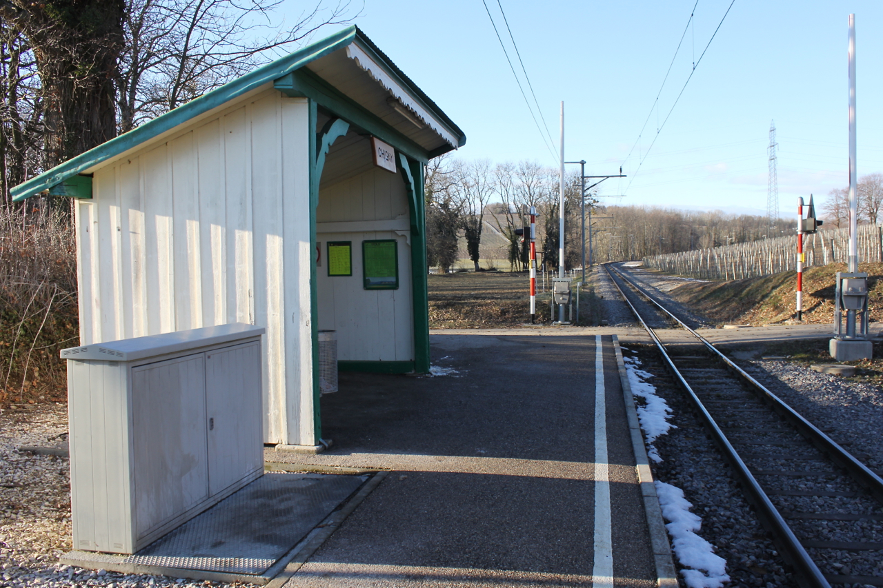 Chigny train station.